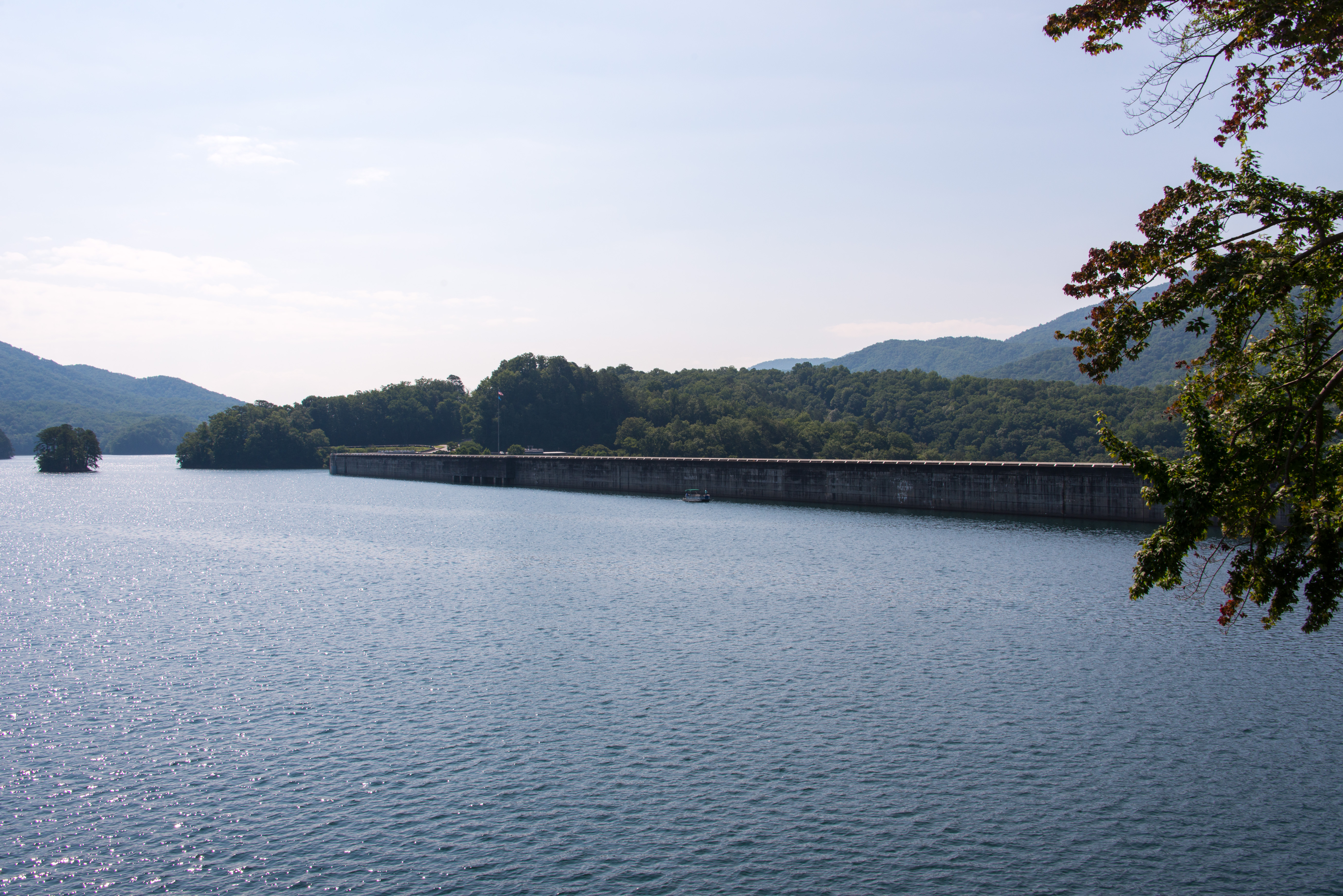 View from a picnic area along Lakeview Drive (west), facing Fontana Dam.